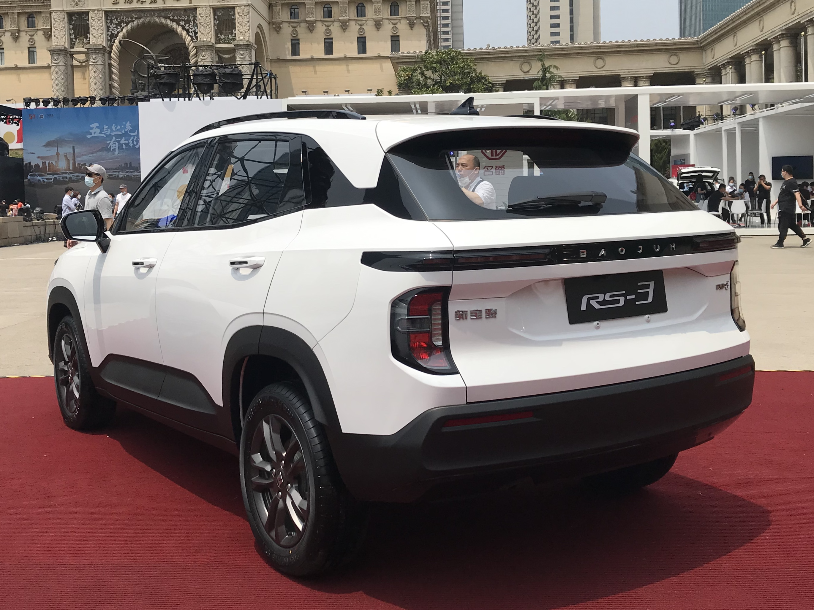 Baojun RS-3